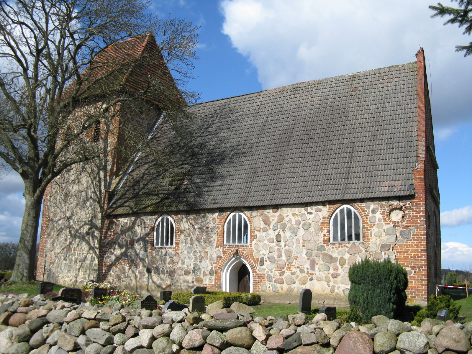 Church in Hohen Pritz, district Ludwigslust-Parchim, Mecklenburg-Vorpommern, Germany